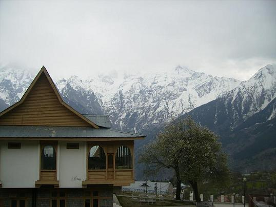 Kalpa, Kinnaur District, Himachal Pradesh